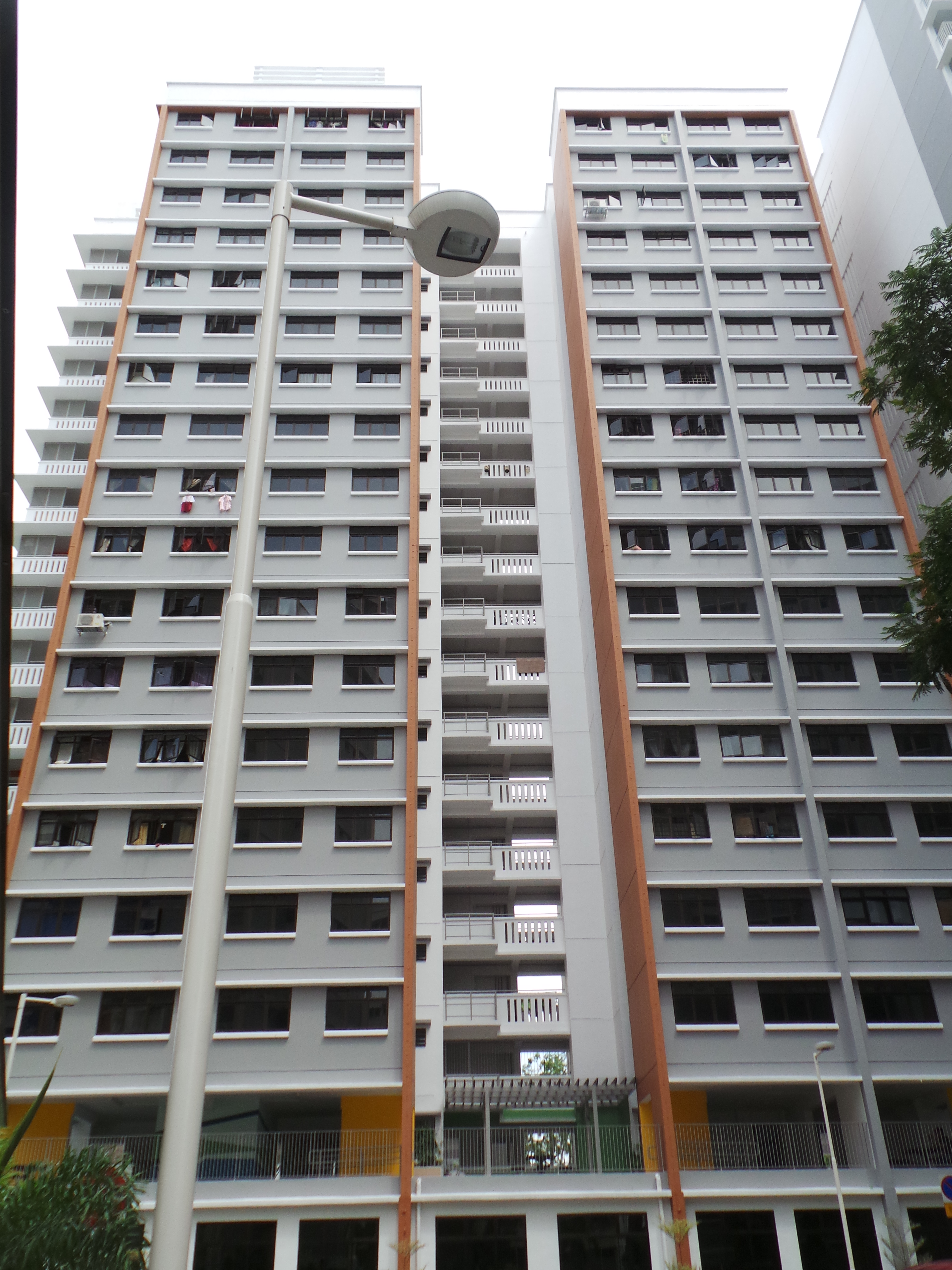 Cassia Estate, Block 52